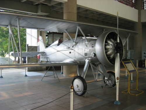 Boeing 100E aircraft at the Royal Thai Air Force Museum in Bangkok.